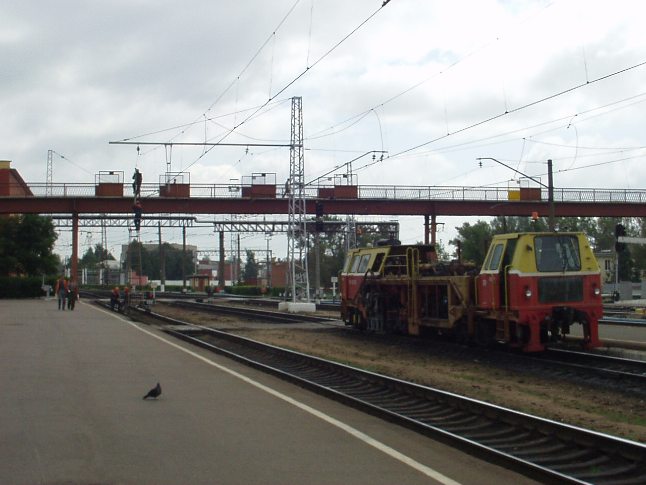 Catenary maintenance works at Oryol railway station, Russia